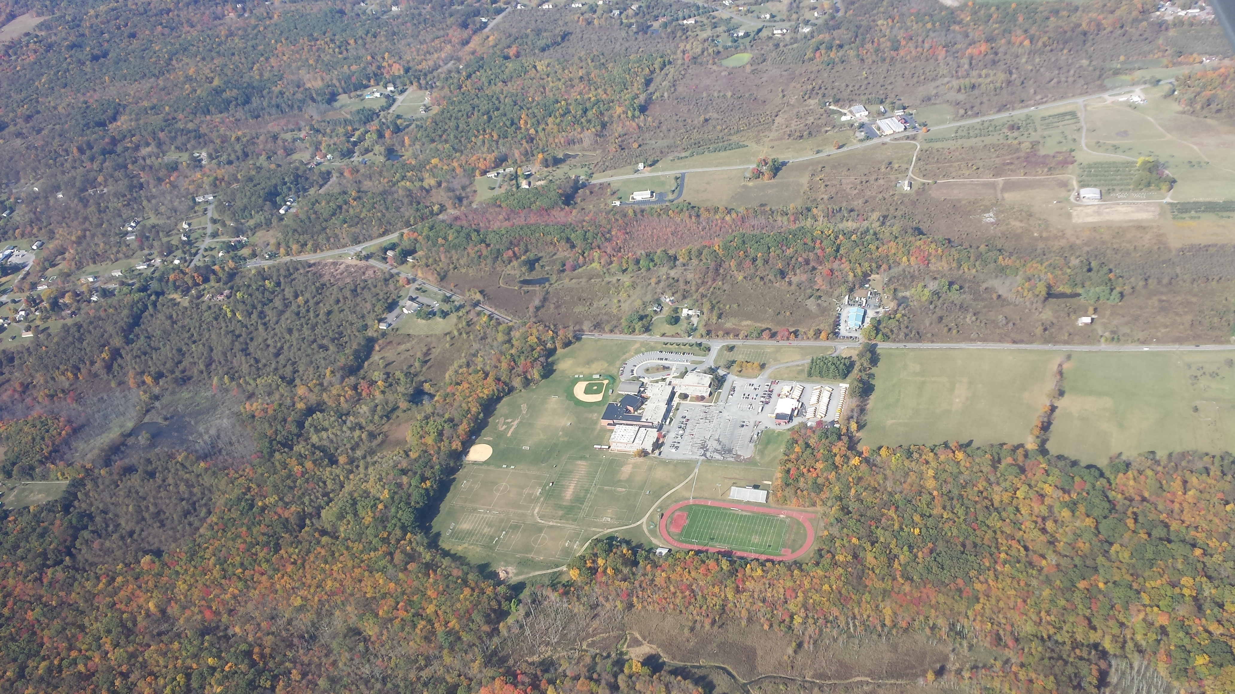 View of New Paltz High School in New Paltz, New York from Cessna 172 at an altitude of 3,500 feet MSL